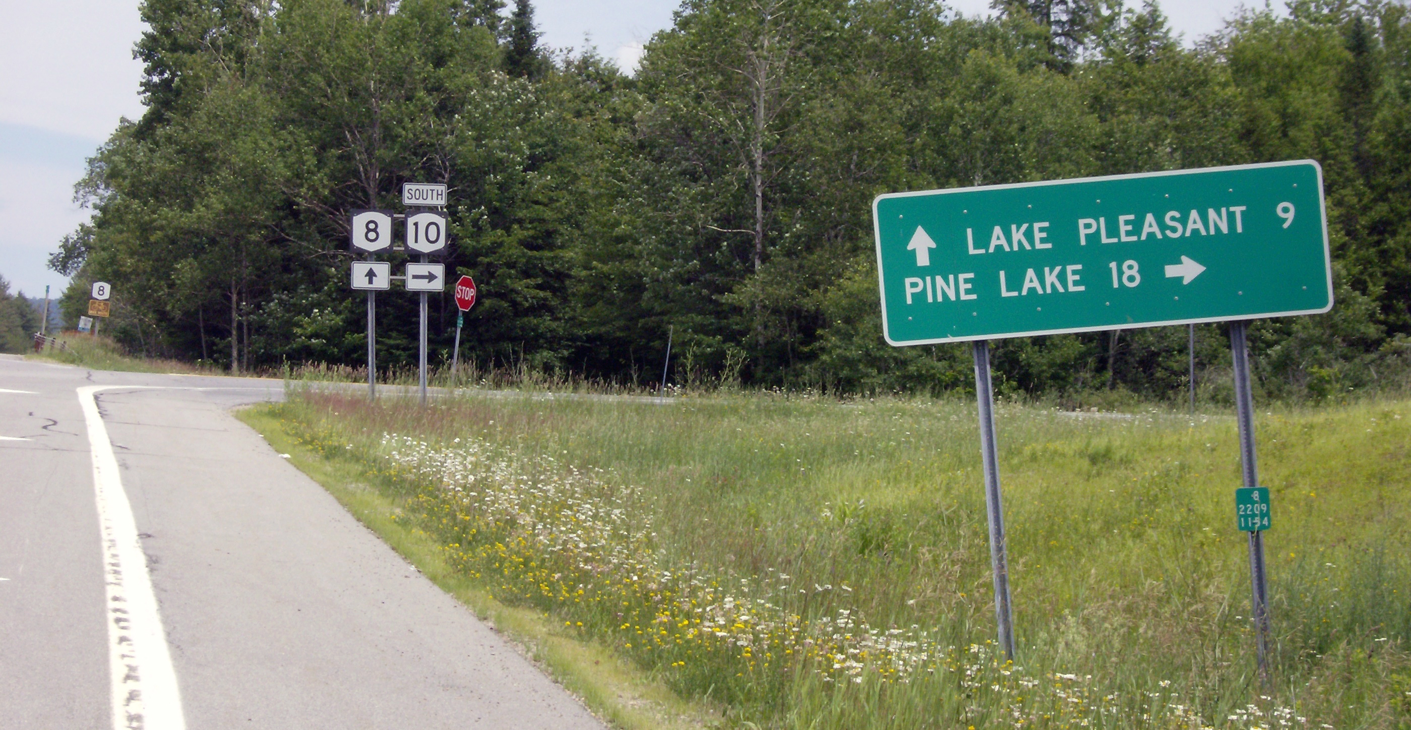 Route 8 in Arietta showing the northern terminus of Route 10.